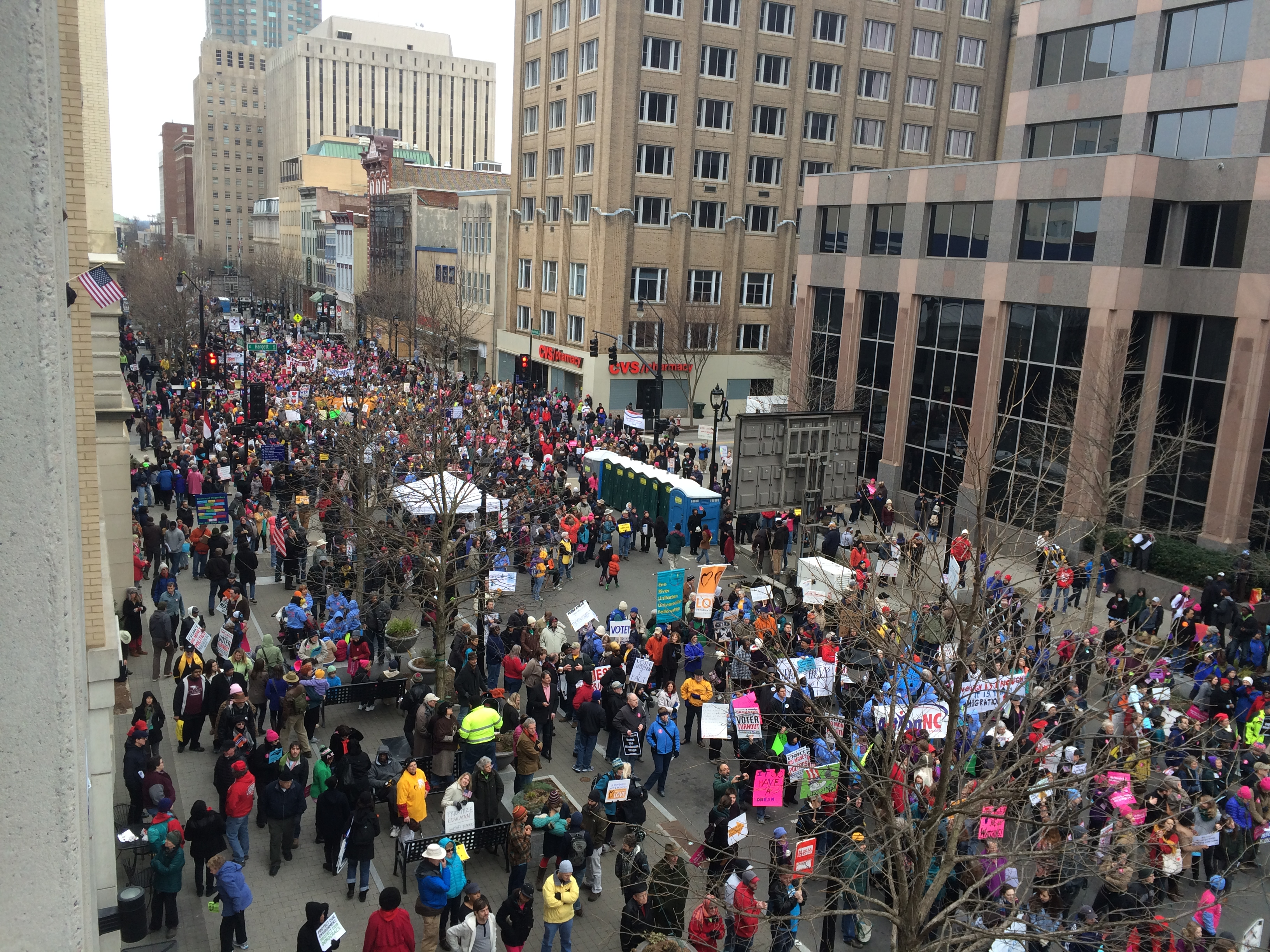 Another picture of the crowd extending downs Fayetteville street. the crowd goes even farther back but the trees are blocking the view.